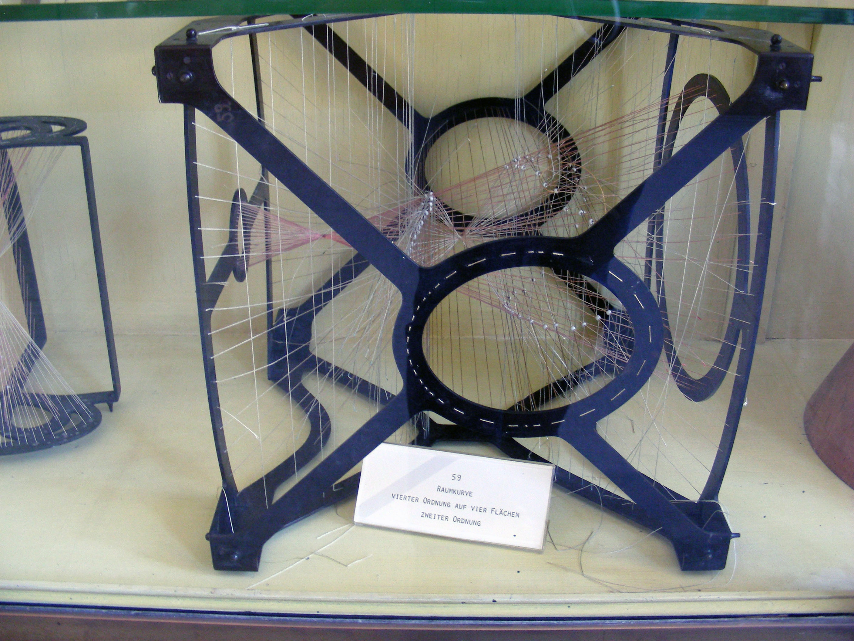 Model in the collection of mathematical models and instruments, Georg-August-Universität Göttingen Göttingen. see also for more information on the models